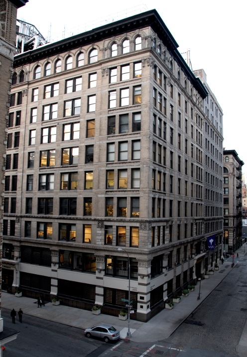 Brown building (New York University).